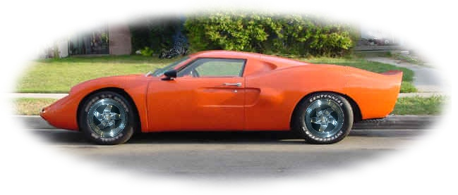 A side view of a Fiberfab Avenger GT12, a kit car from the 1960s and 1970s